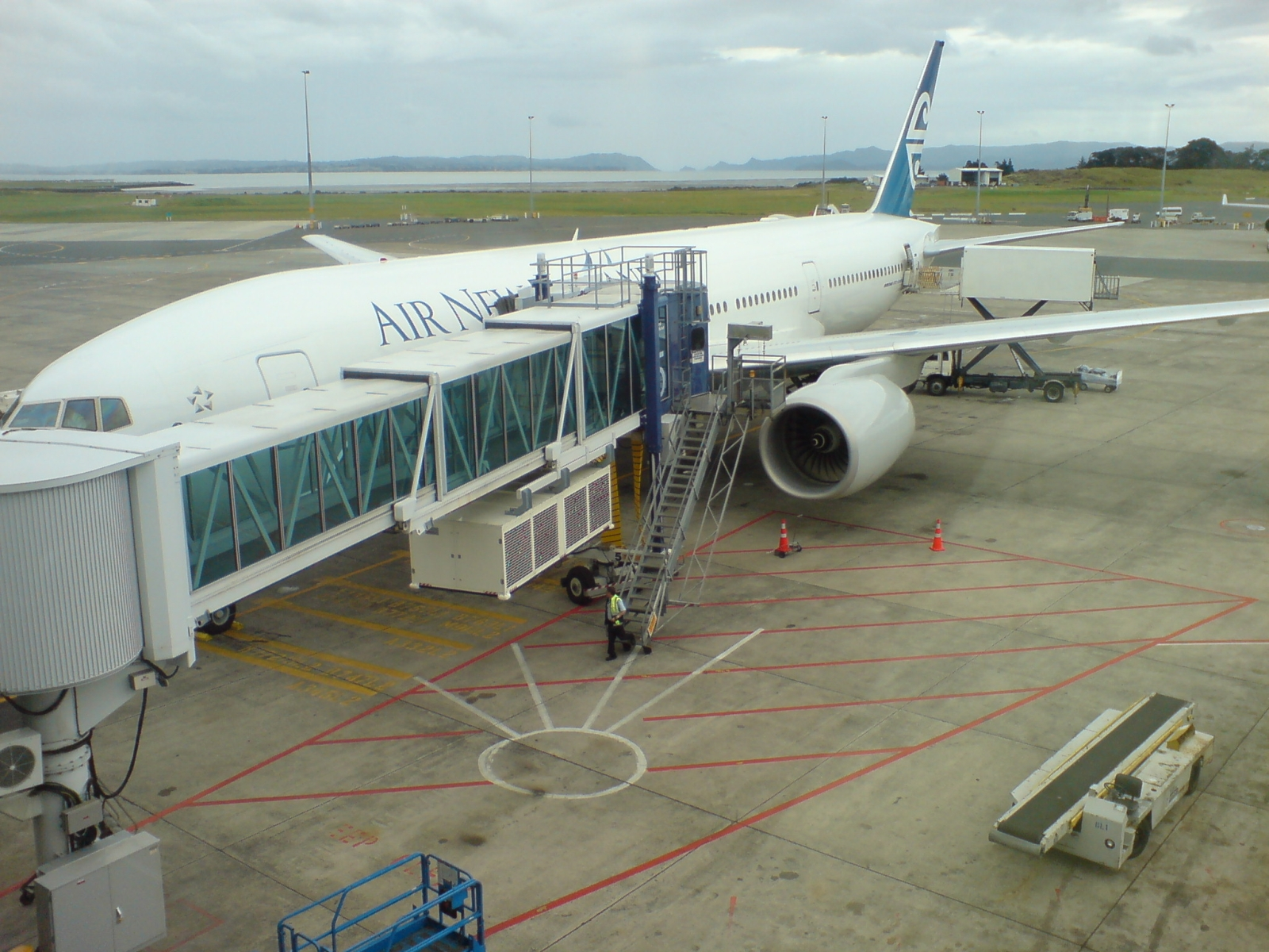 An airliner of Air New Zealand at Auckland International Airport.